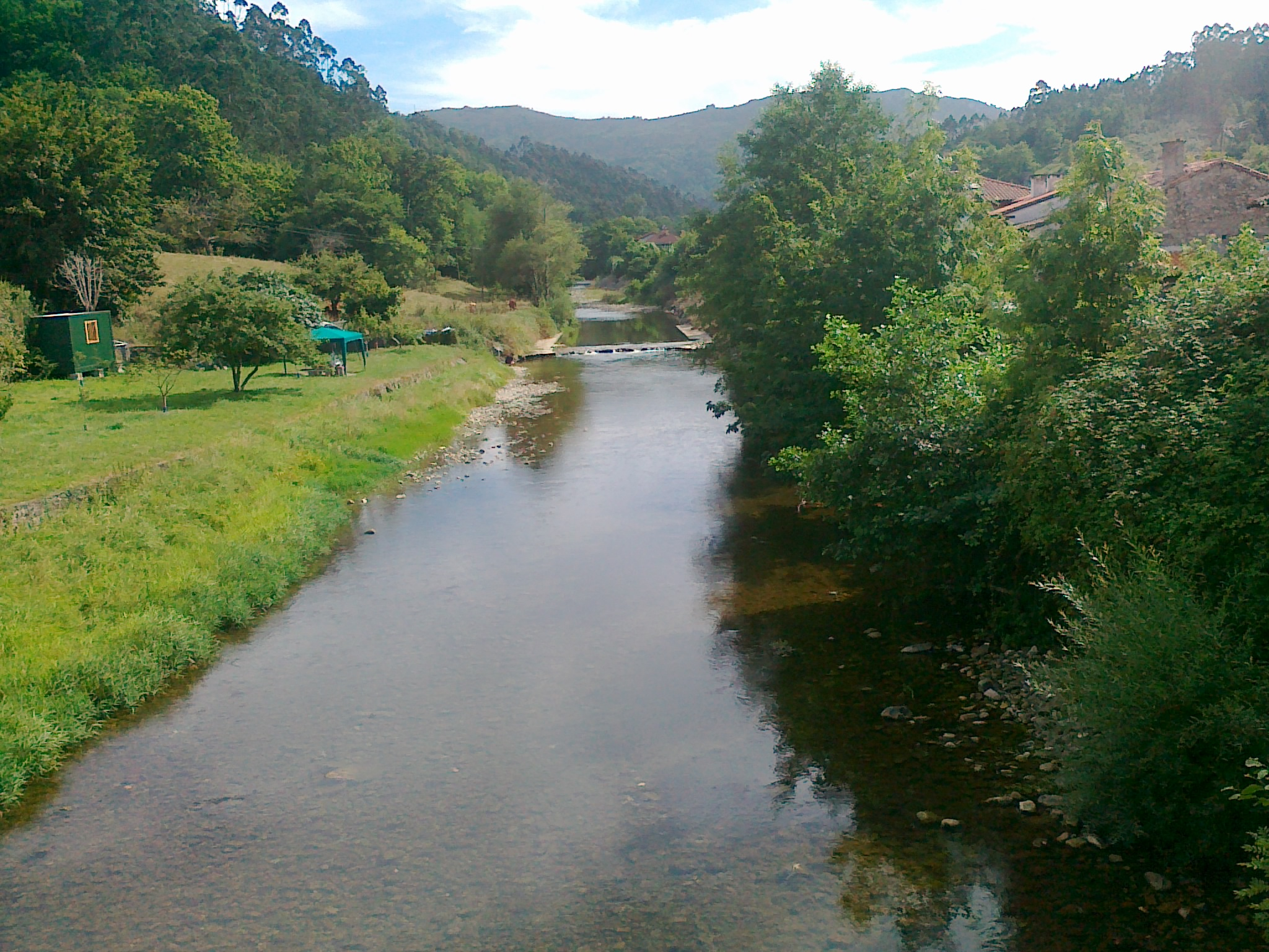 El entorno del Río Bedón está catalogado como LIC (Lugar de Interés Comunitario) por la enorme biodiversidad que alberga.